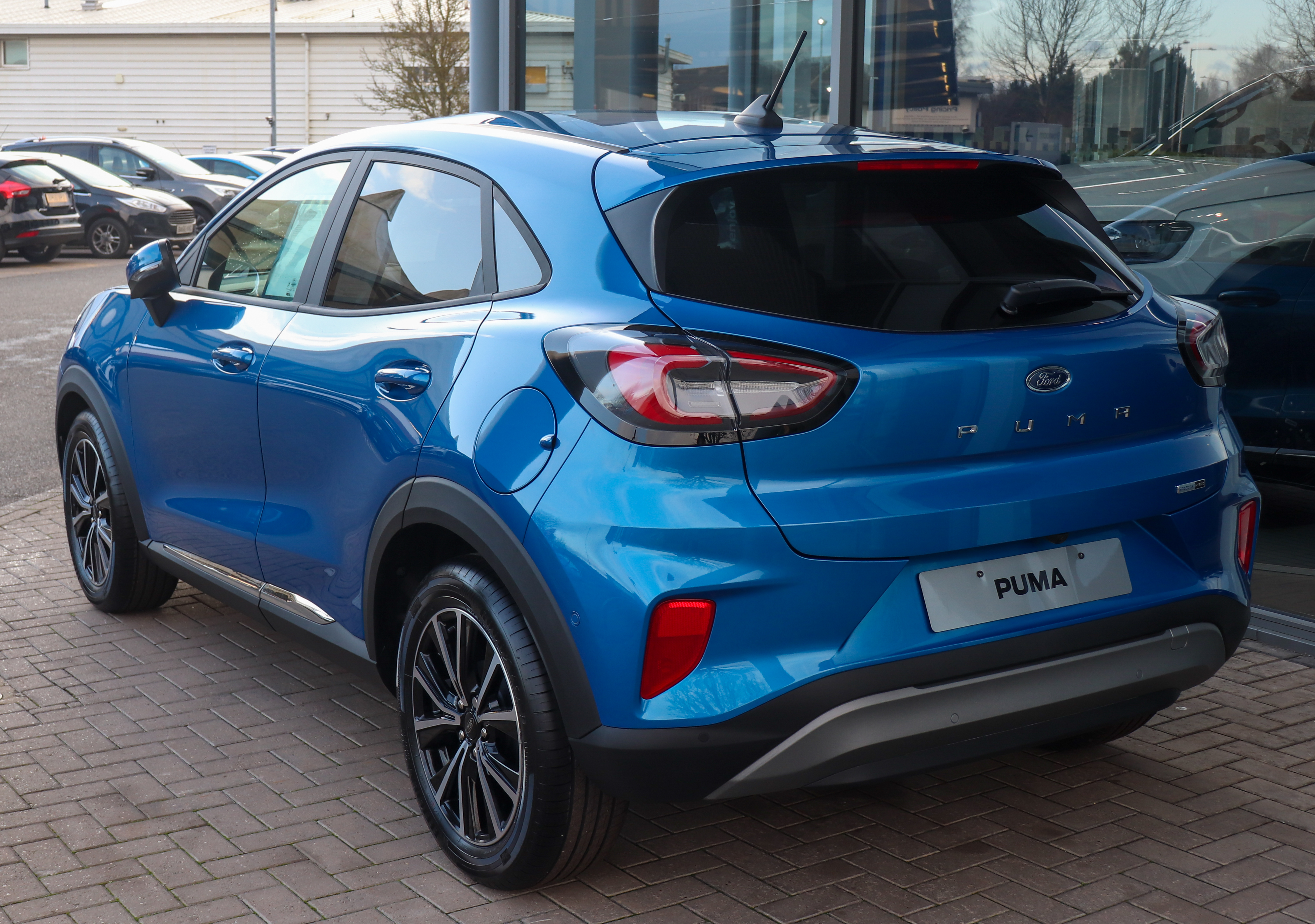 2020 Ford Puma Titanium EcoBoost Hybrid 1.0 Rear Taken in Leamington Spa